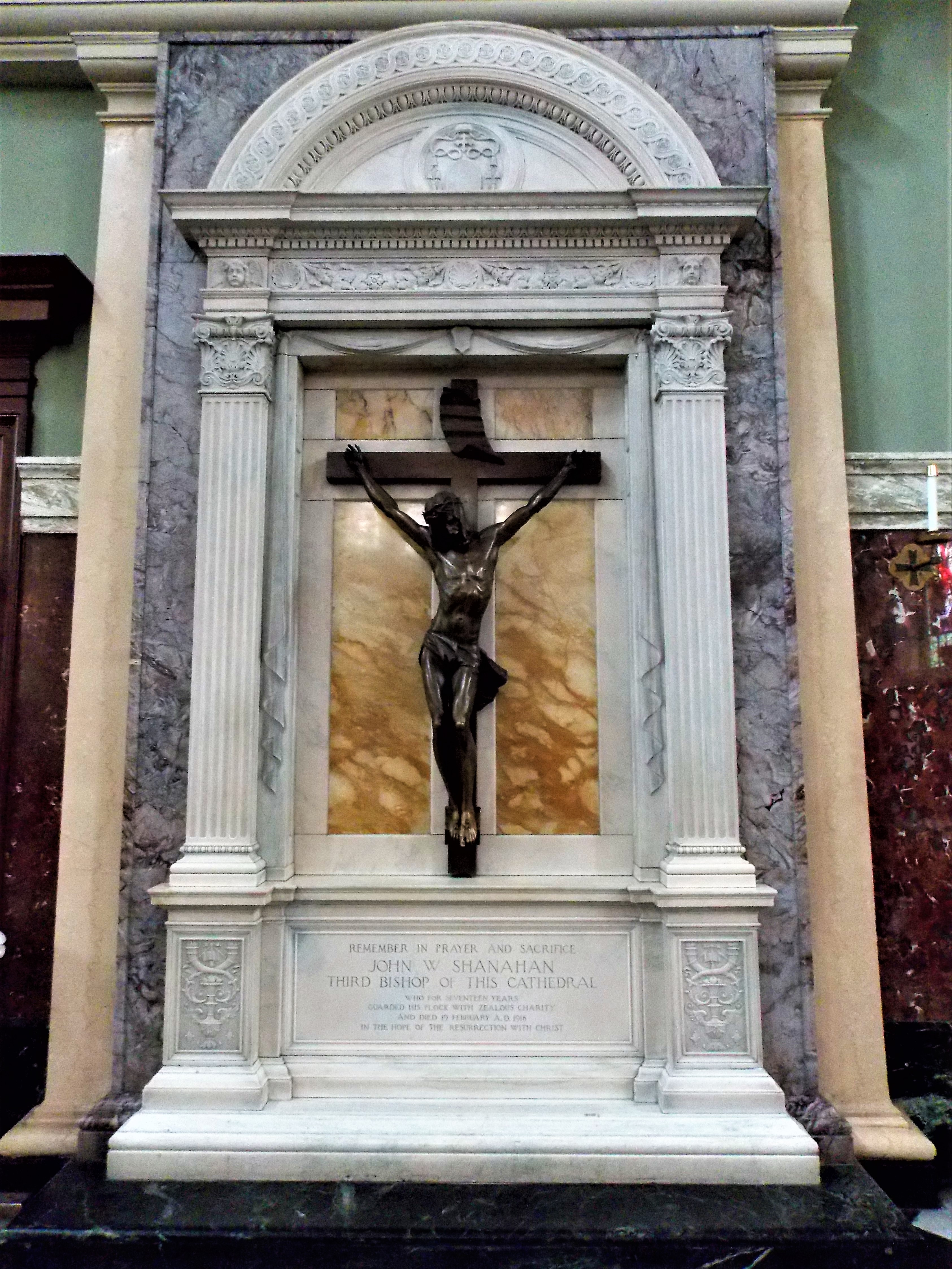 The Cathedral of Saint Patrick in Harrisburg, Pennsylvania.